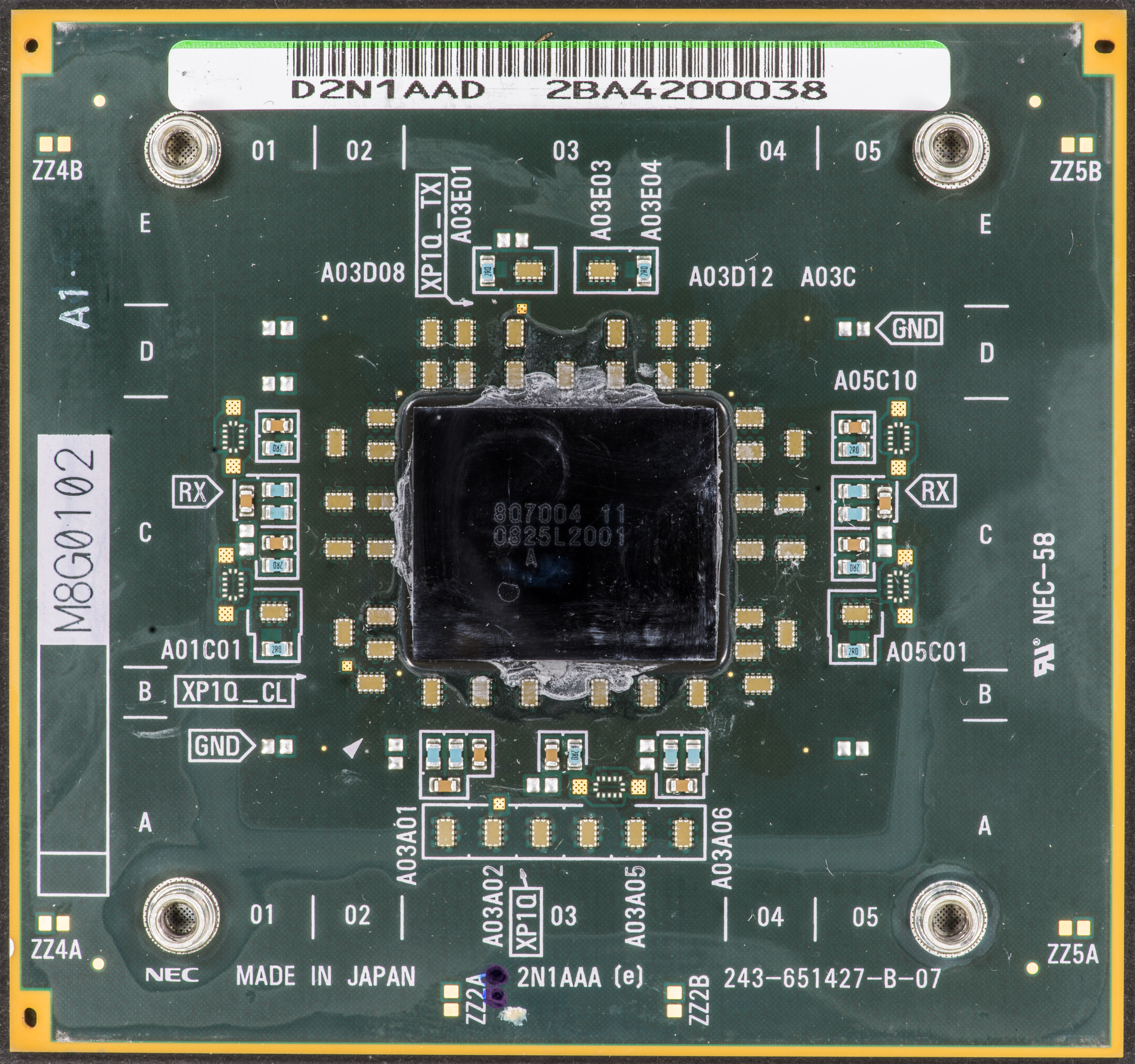 computer processor NEC SX